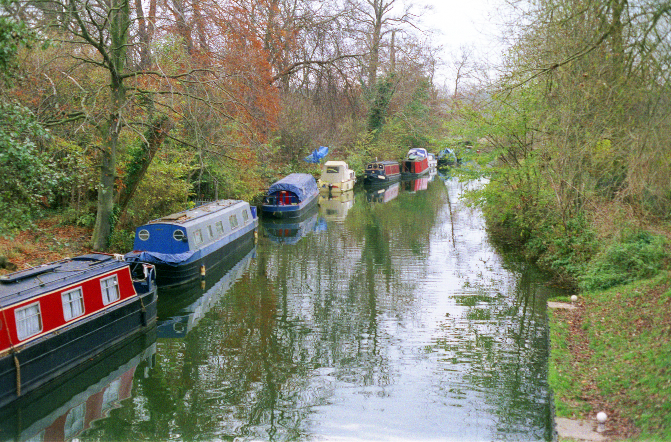 Narrowboats moored on the River Stort Navigation, Harlow, England